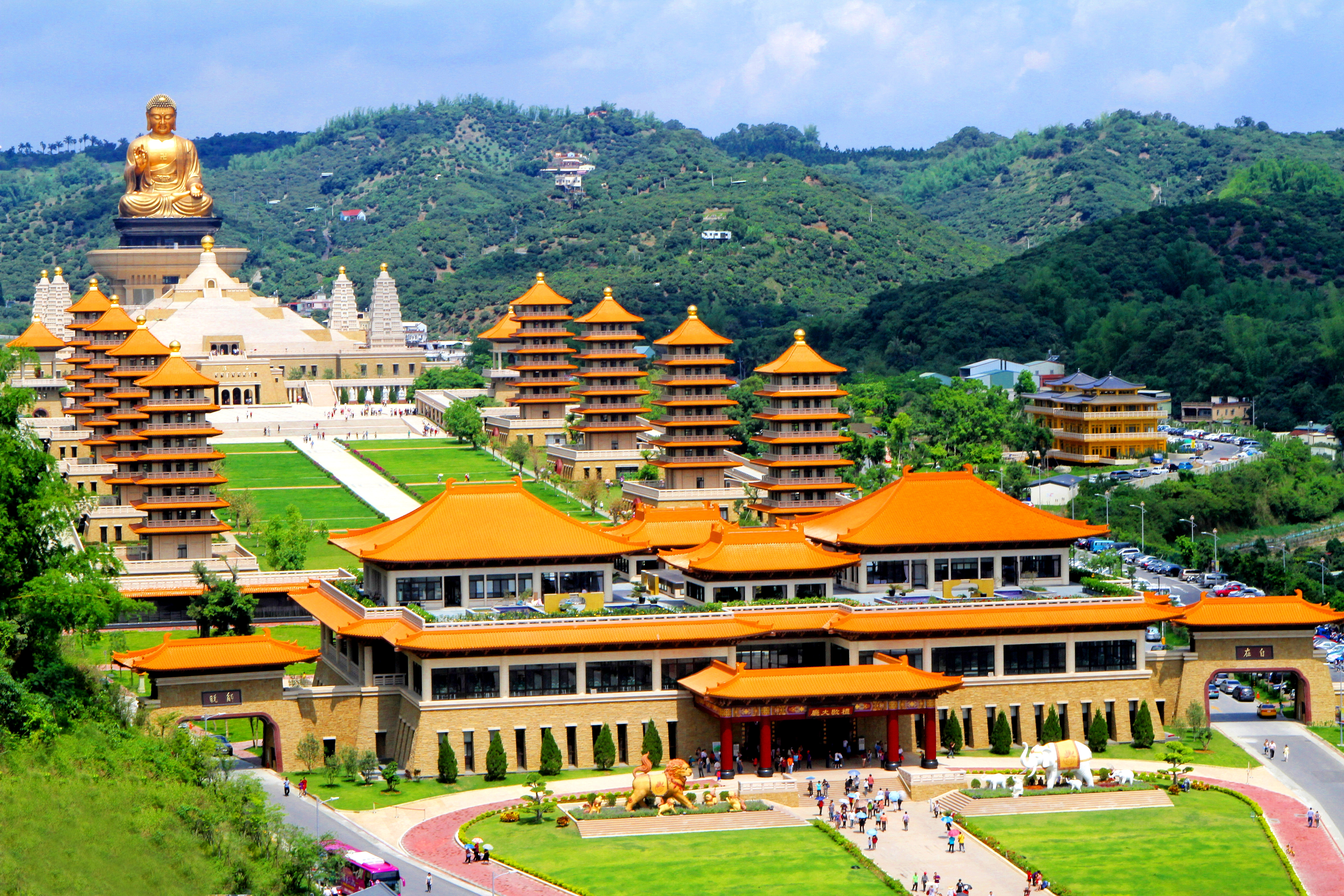 Birdseye view of Fo Guang Shan Buddha Memorial Center.